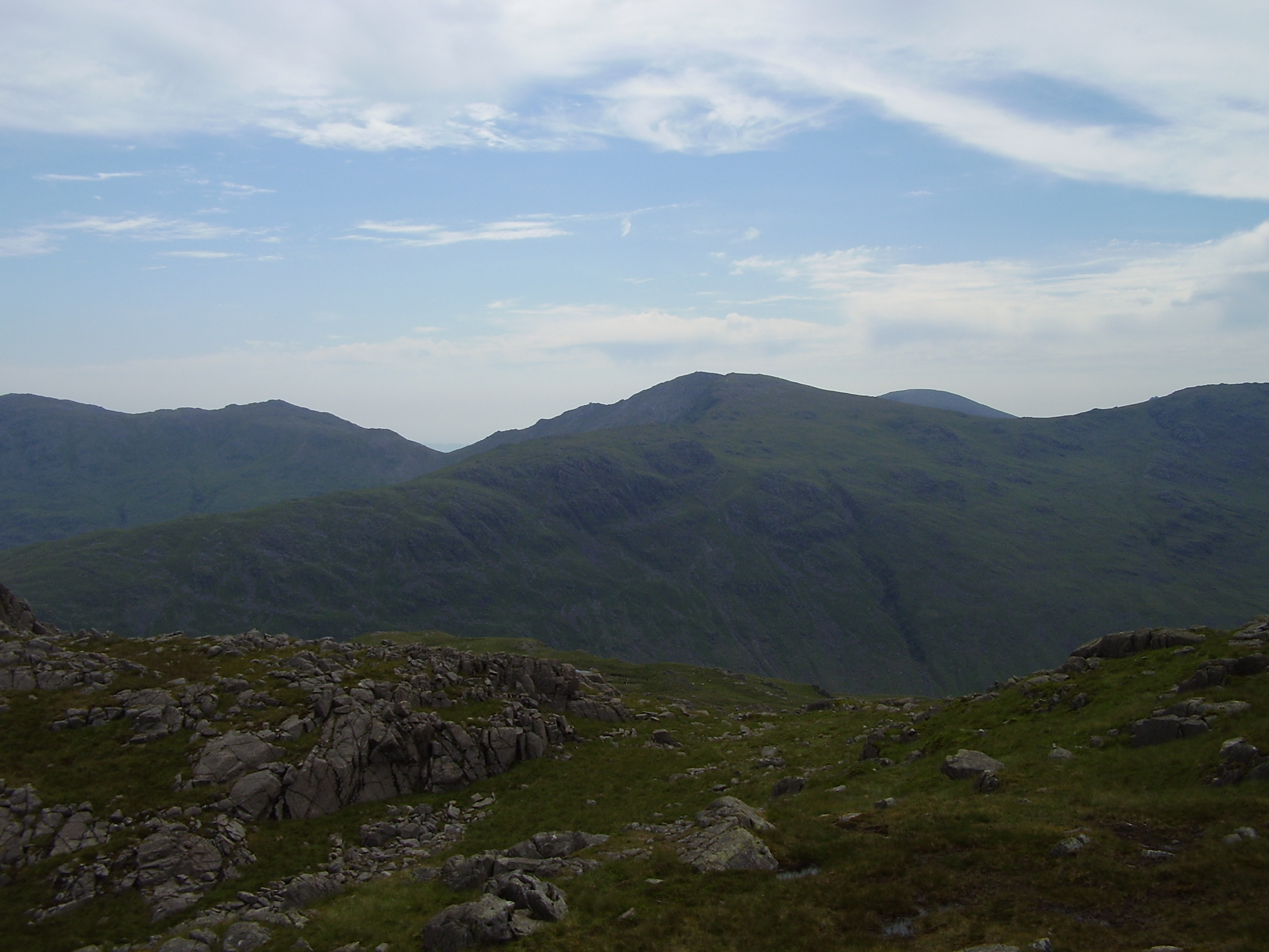 Great Carrs from Cold Pike amongst the Furness Fells of Lancashire